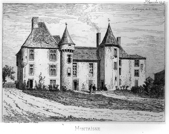 Castle de Montaigne of Saint-Michel-de-Montaigne (Dordogne, France)